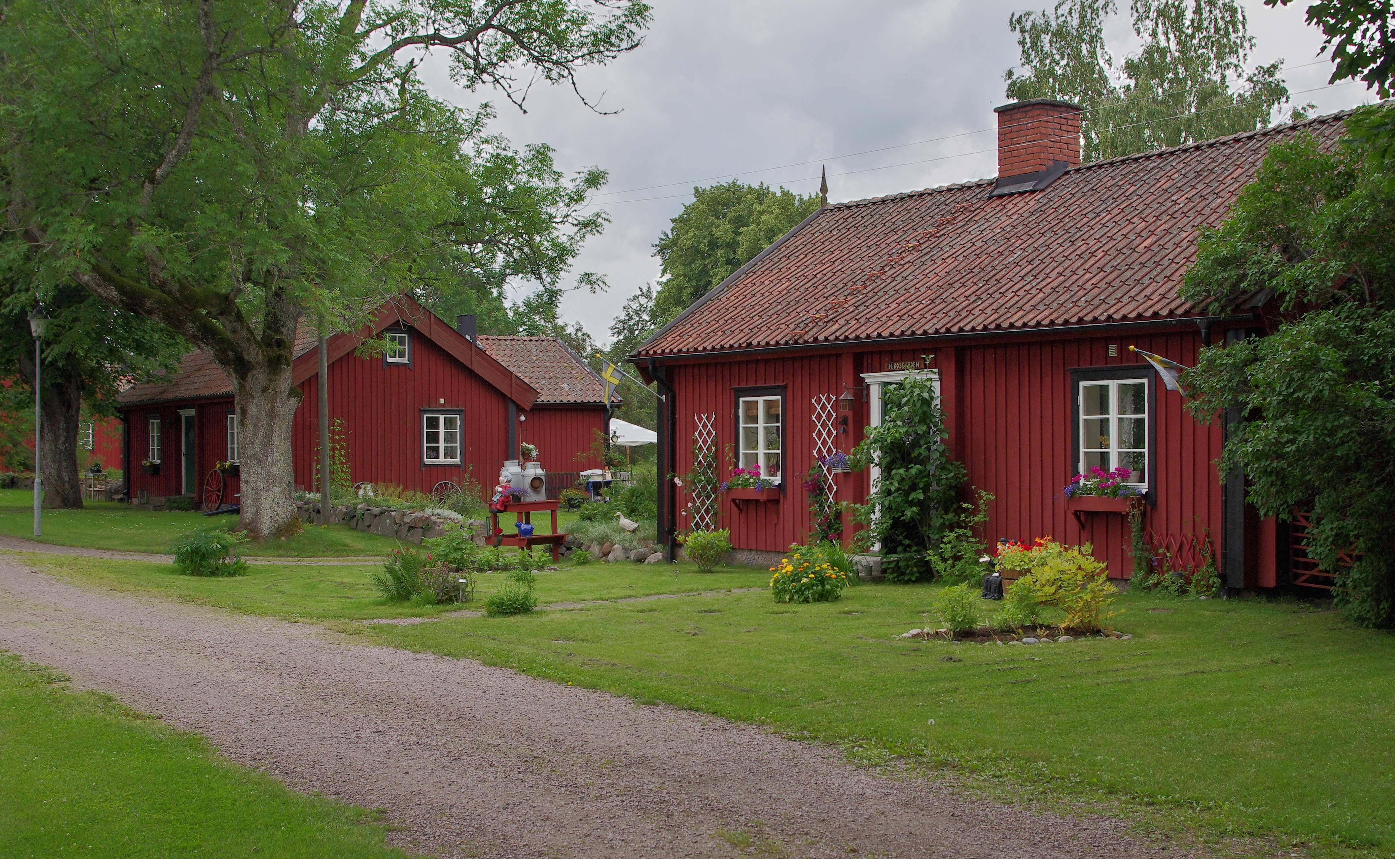 The row village Hömb in Västergötland, Sweden.